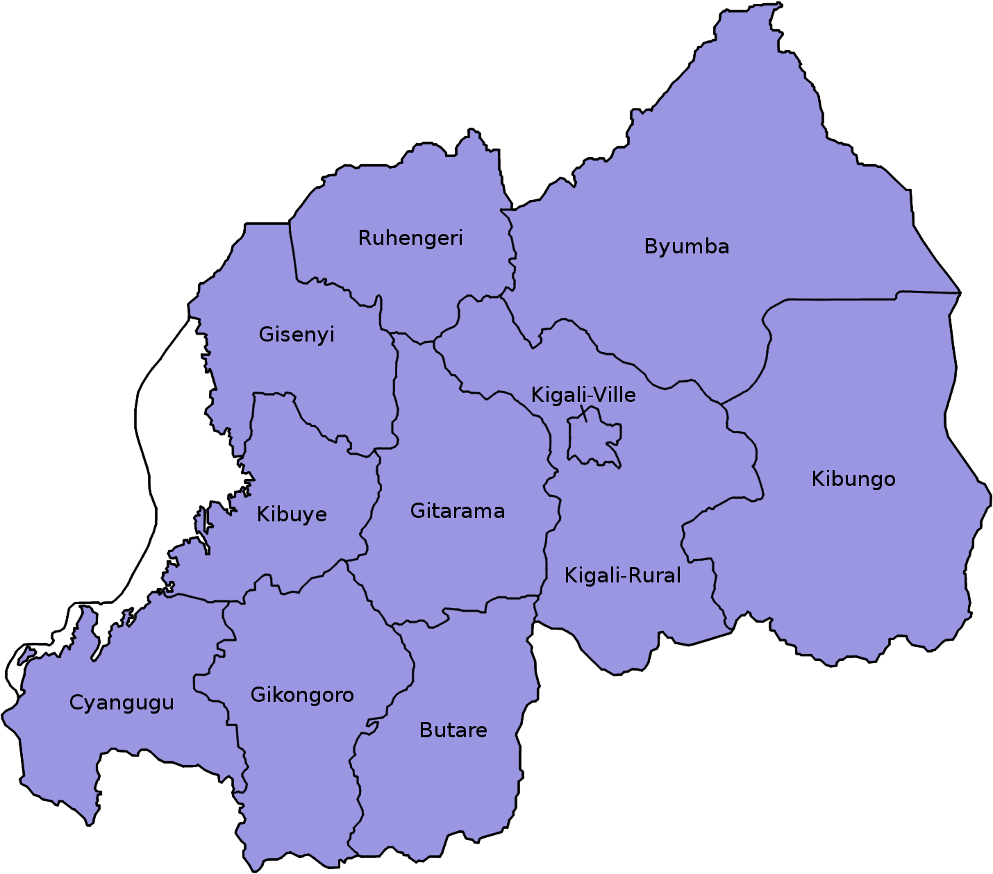 A map of the 11 prefectures of Rwanda in 1994. Made using this map.